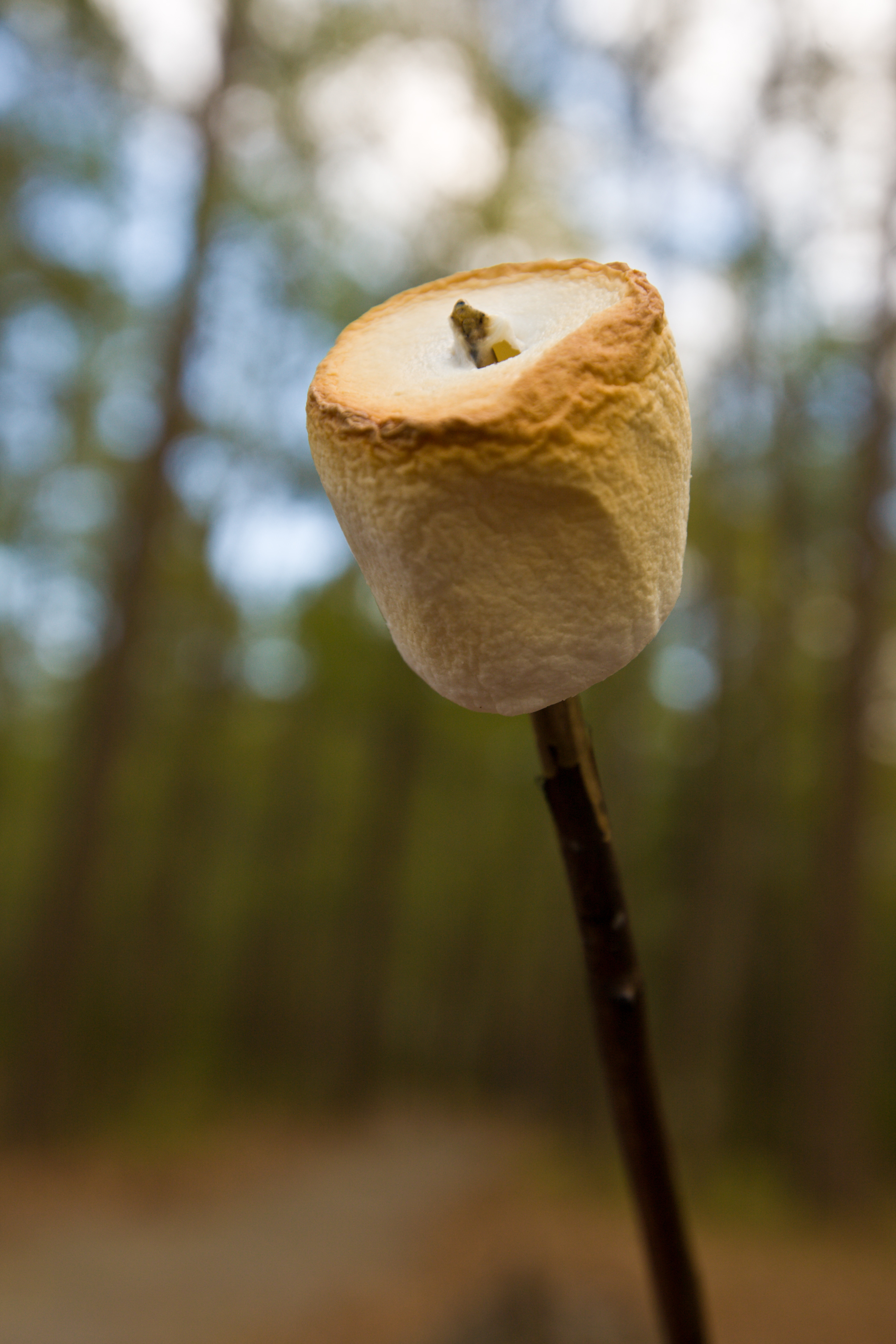 Roasted marshmallows can be a fun and free options for military families during the summer travel season. Located less than two hours from Camp Lejeune, Goose Creek State Park offers beautiful views, recreational opportunities and a chance to get out in nature at a surprisingly low cost. The park spans 1,700 acres of wetlands in Beaufort County, east of Washington, N.C. Military members and their families may enjoy the park’s reasonable camping options, environmental education and children’s programs.